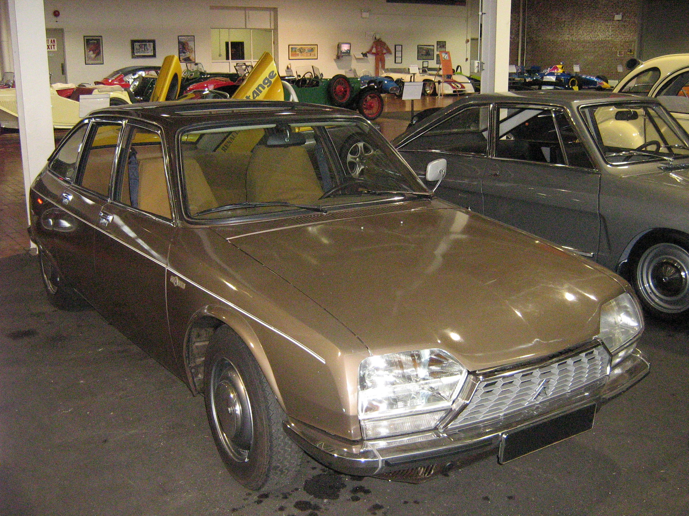 1975 Citroën GS Birotor - rotary powered